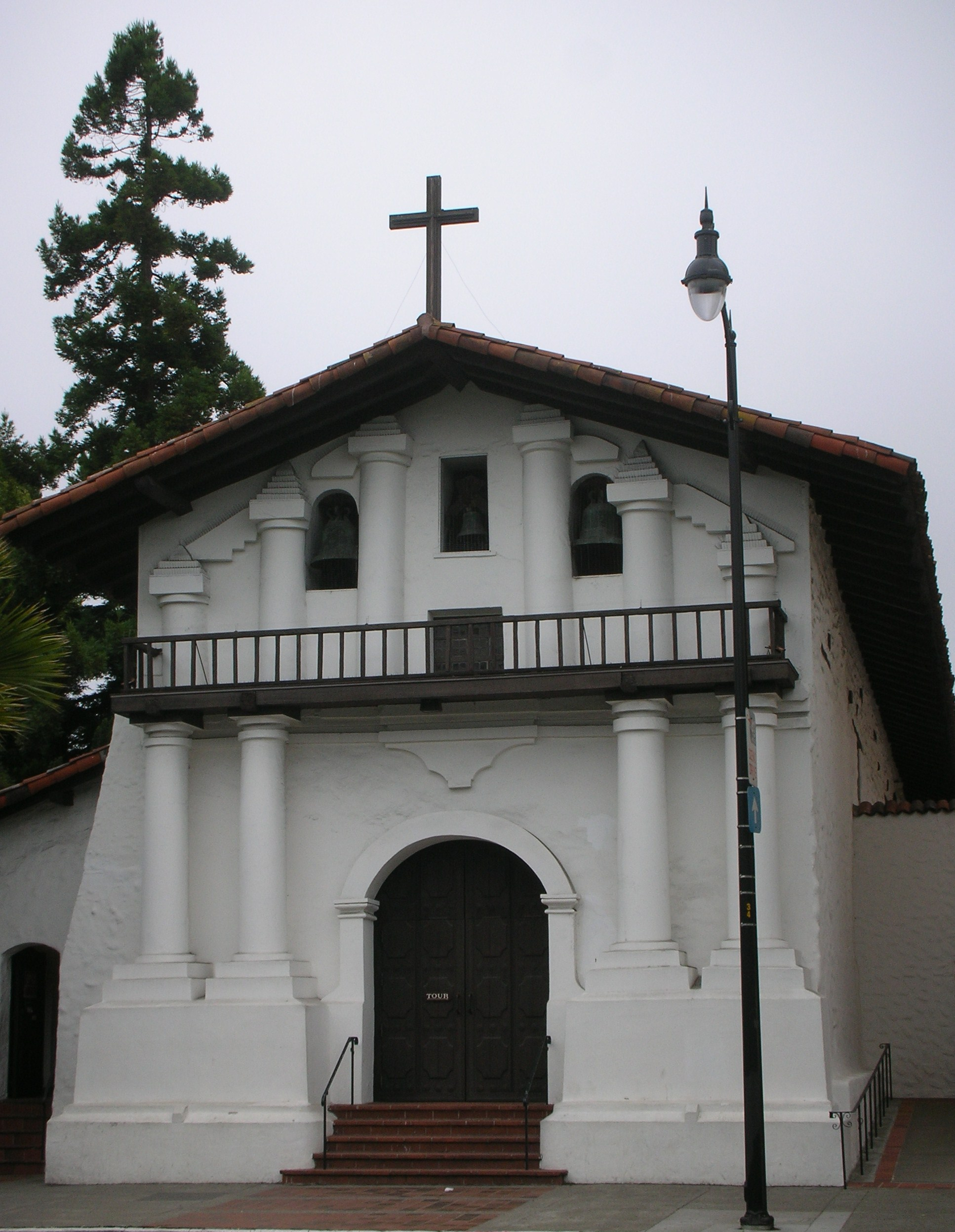 Mission Dolores — in the Mission District, San Francisco. Mission Dolores a San Francisco